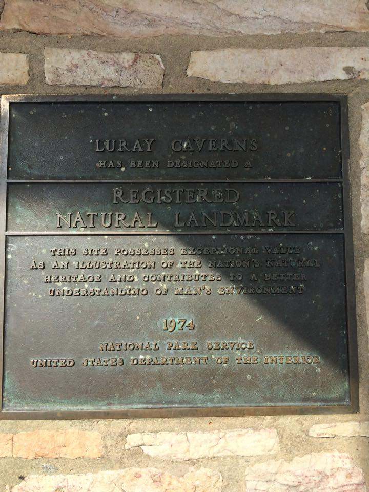 This is a plaque located outside the Luray Caverns, which declares Luray Caverns to be a National Natural Landmark.